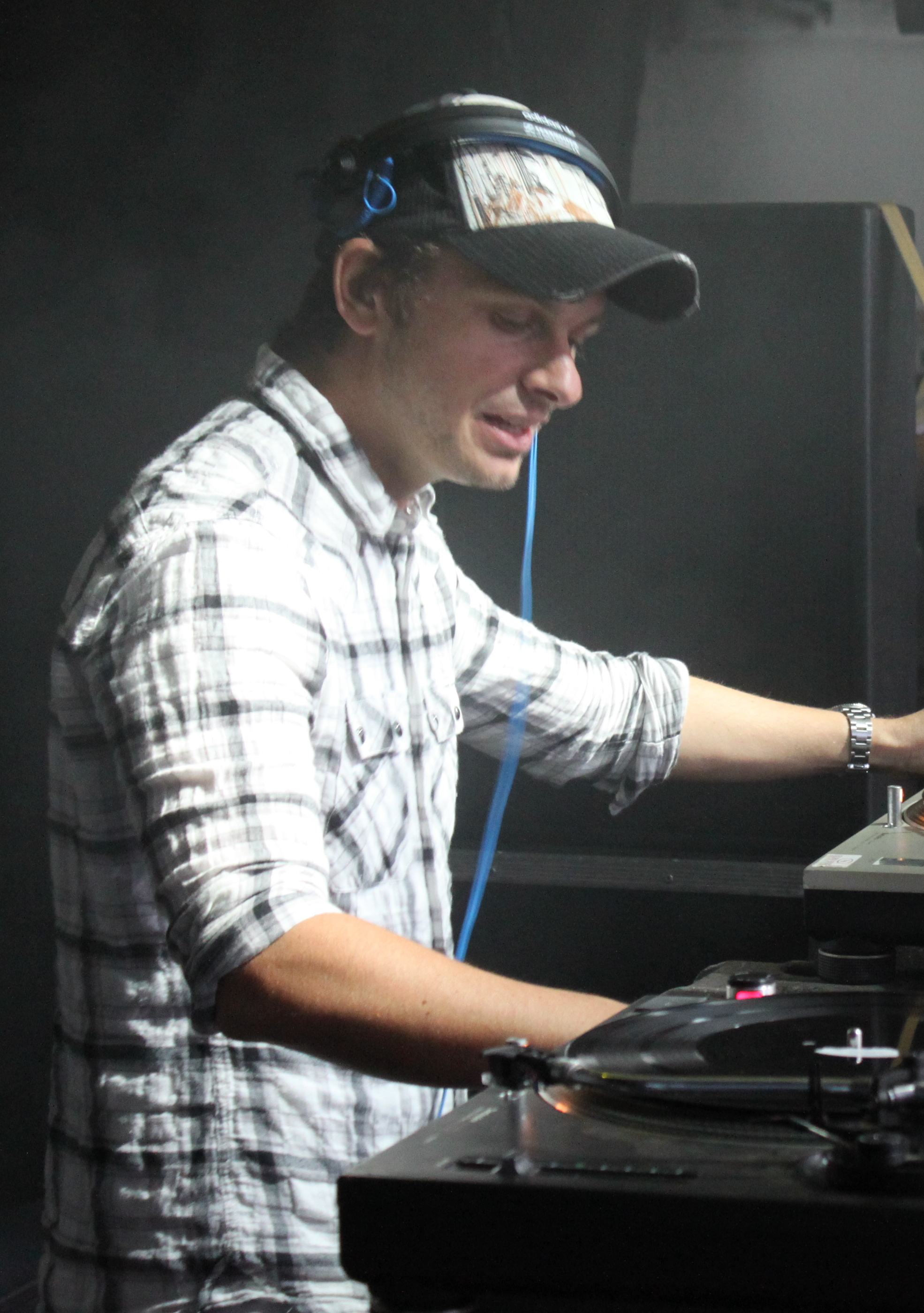 Andy C live in 2011